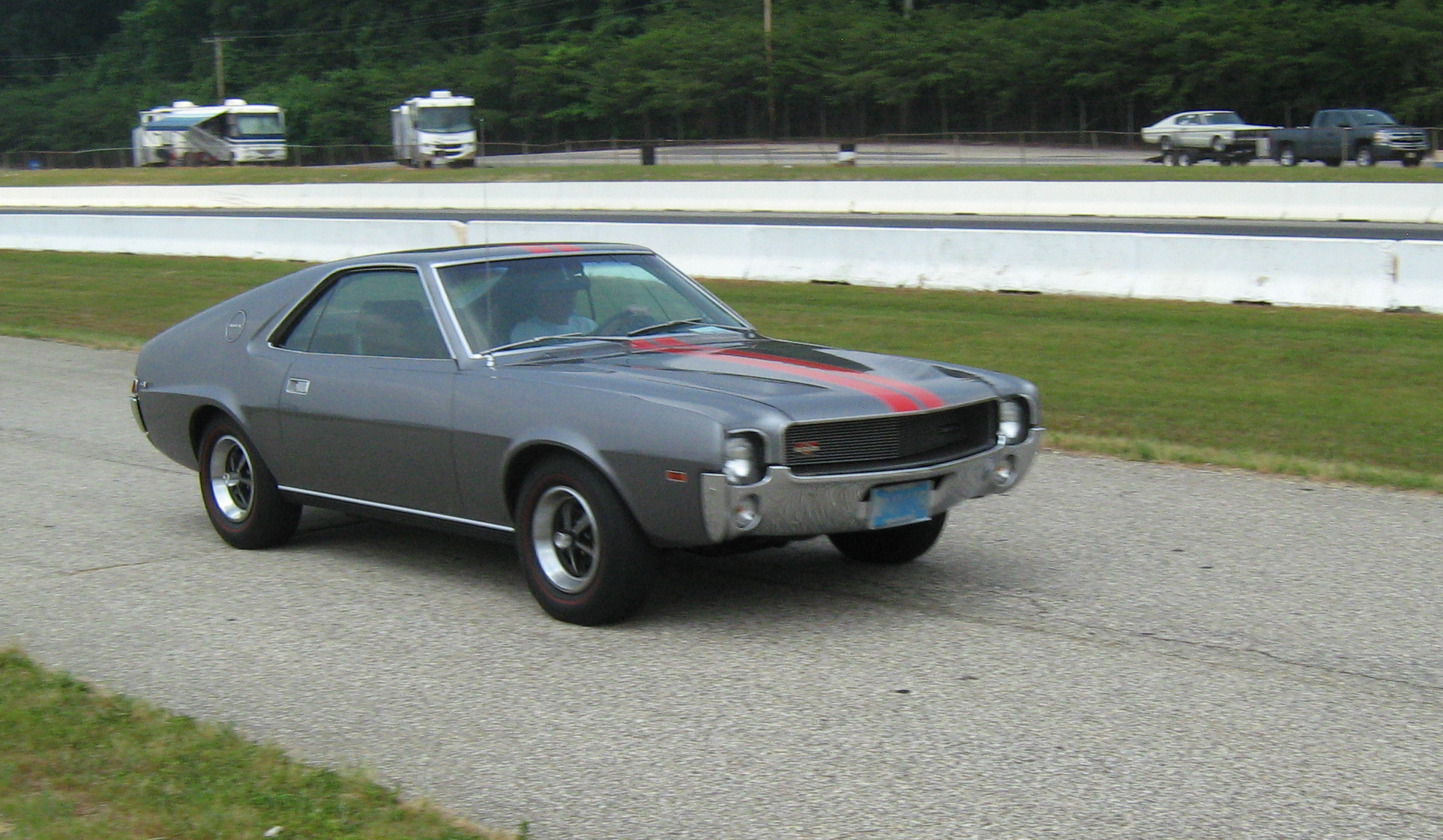 1969 AMX, a two-seat GT sport coupe made by American Motors Corporation (AMC). This "muscle car" has the 343 "Go Package" that included the 343 cu in (5.6 L) high-compression 4-bbl V8 280 hp (209 kW; 284 PS) V8 engine, racing stripes, power front disk brakes, Twin-Grip rear differential, Magnum 500 wheels with trim ring, E70x14 red-stripe performance tires, and other high-performance components. This car is finished in "Castilian Gray" metallic (paint code P63) and red "Go Pac" stripes. Photograph taken as this car was returning from a fun drive down the drag strip during the Potomac Ramblers automobile club's 2011 "All AMC Drag Race Day" held at the Capitol Raceway, a NHRA sanctioned, 1/4 mile, asphalt and concrete, drag strip located in Crofton, Maryland.